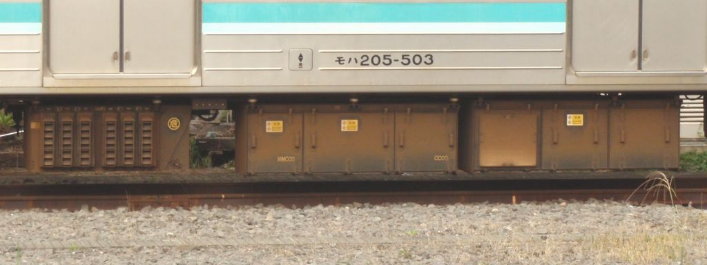 Main control Unit of East Japan Railway EMU 205.